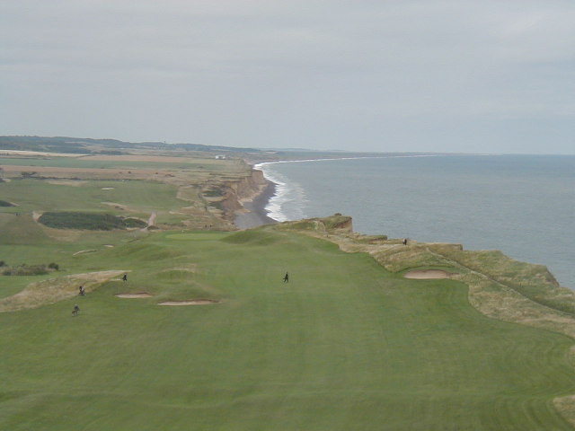 Sheringham Golf Course. The view west along the North coast of Norfolk